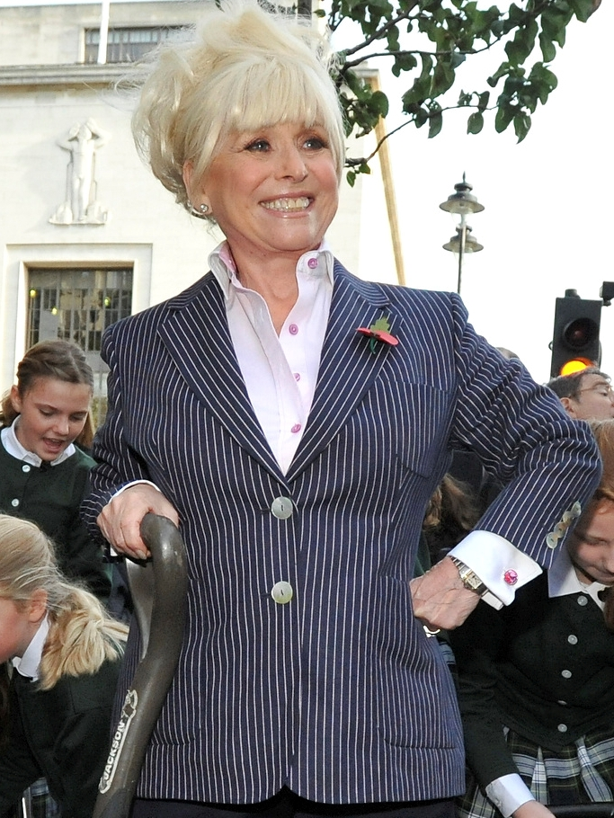 Barbara Windsor, actress and Marylebone local, planted the last of 53 new pear trees to go into Weymouth Street on 4 Nov 2010. For info